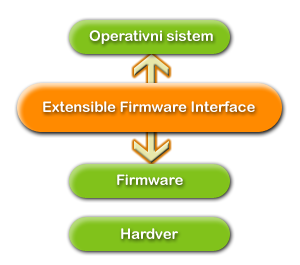 Extensible firmware interface